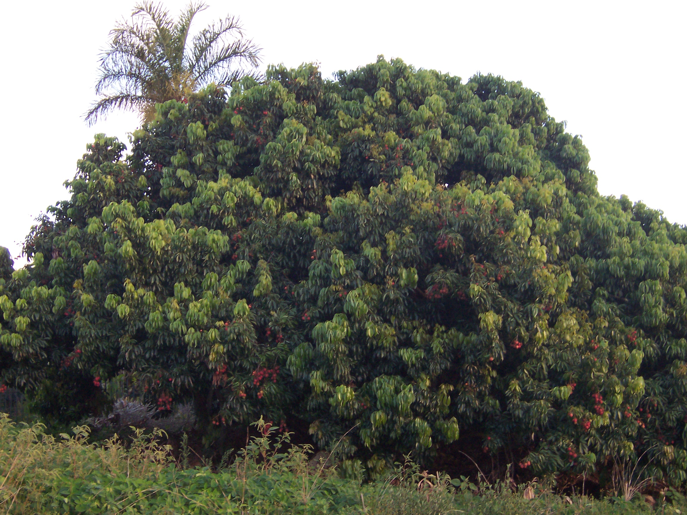 Litchi chinensis (tree : habit) Photo : B.navez - 15 FEB 2006 - Réunion island